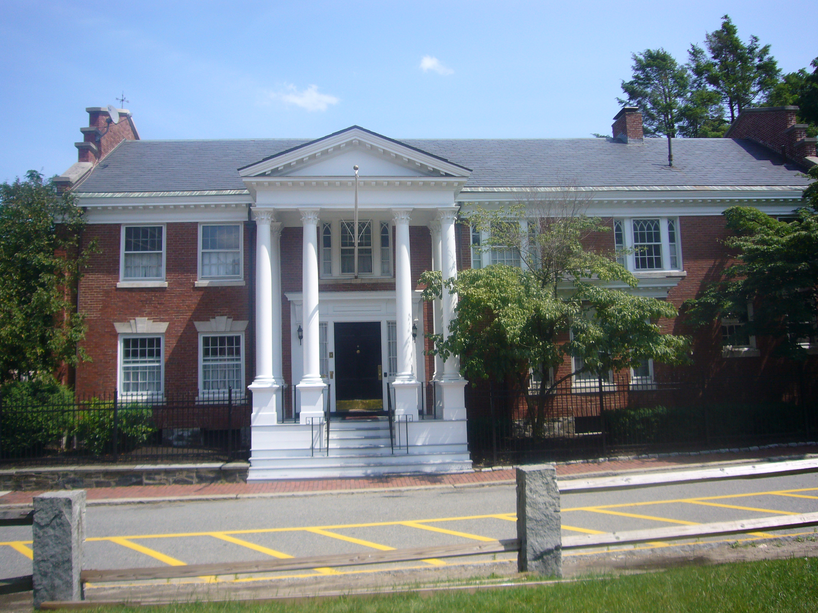 A view of the Fly Club, a Final Club at Harvard University.